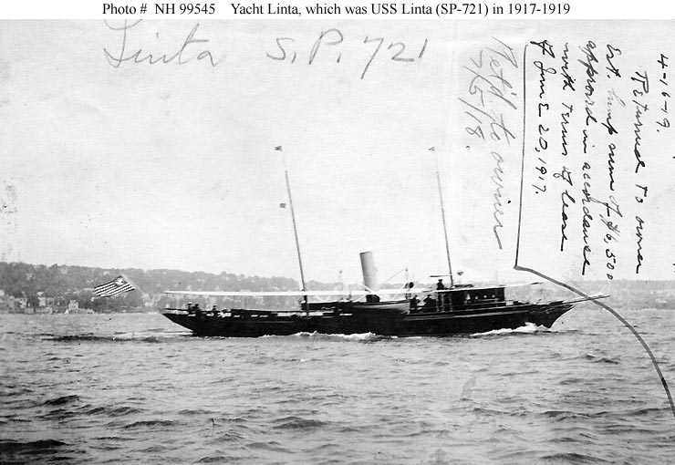 The private yacht Linta sometime prior to her United States Navy service as the patrol vessel